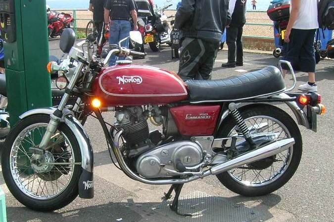 750cc example of Norton Commando with the large touring Interstate tank. The 850cc version came with a left foot gearshifter and electric start.